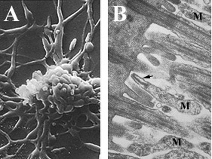 "A, scanning electron microscopy of filamentous M. pneumoniae. B, transmission electron microscopy of flask-shaped M. pneumoniae (M) attached by the terminal tip organelle (arrow) to ciliated mucosal cells. Magnification: A, x10,000;B, x36,000."